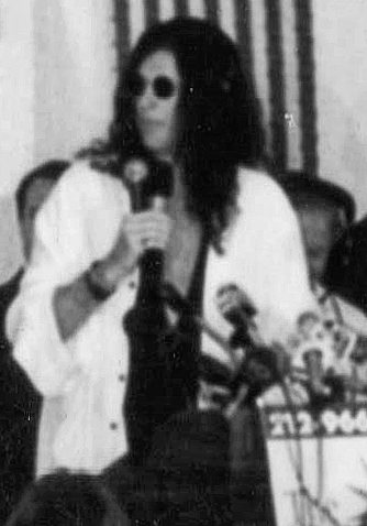 Stern at the Libertarian Party convention where he was endorsed as a candidate for Governor for New York at the Italian Convention Center in Albany, New York on Saturday 23 April 1994.